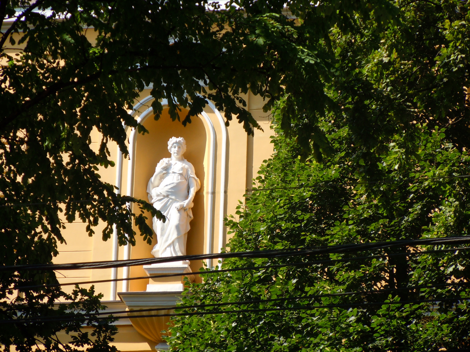 Iaşi , National College „Costache Negruzzi“ , 1895 , detail , Iaşi , Romania